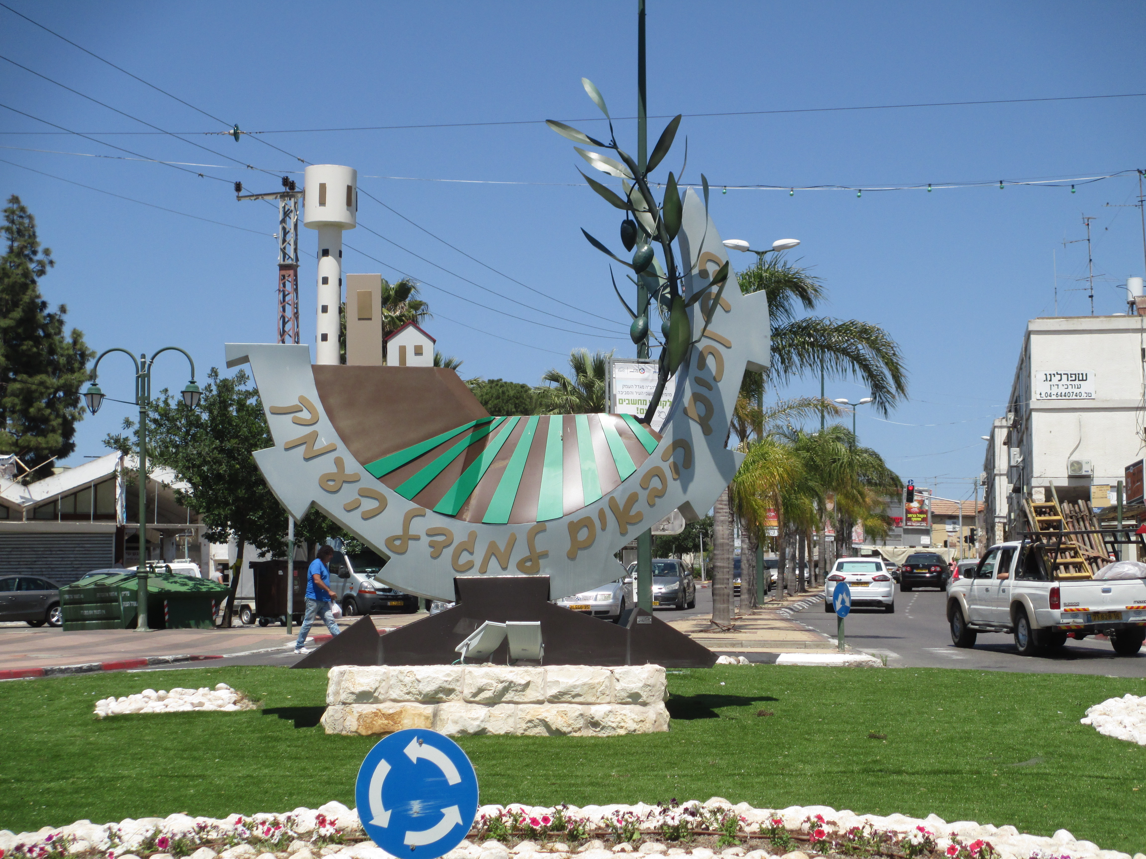 Entrance circle to Migdal Ha'emek